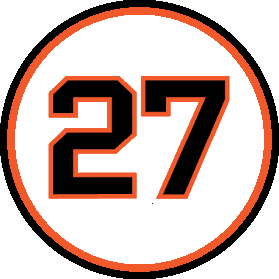 SF Giants retired number placard as shown inside stadium